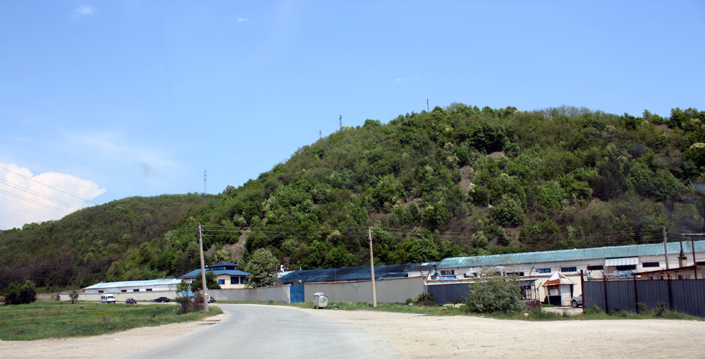 Distillery in Kostenets, Bulgaria of Synchron Invest Distillers Ltd.